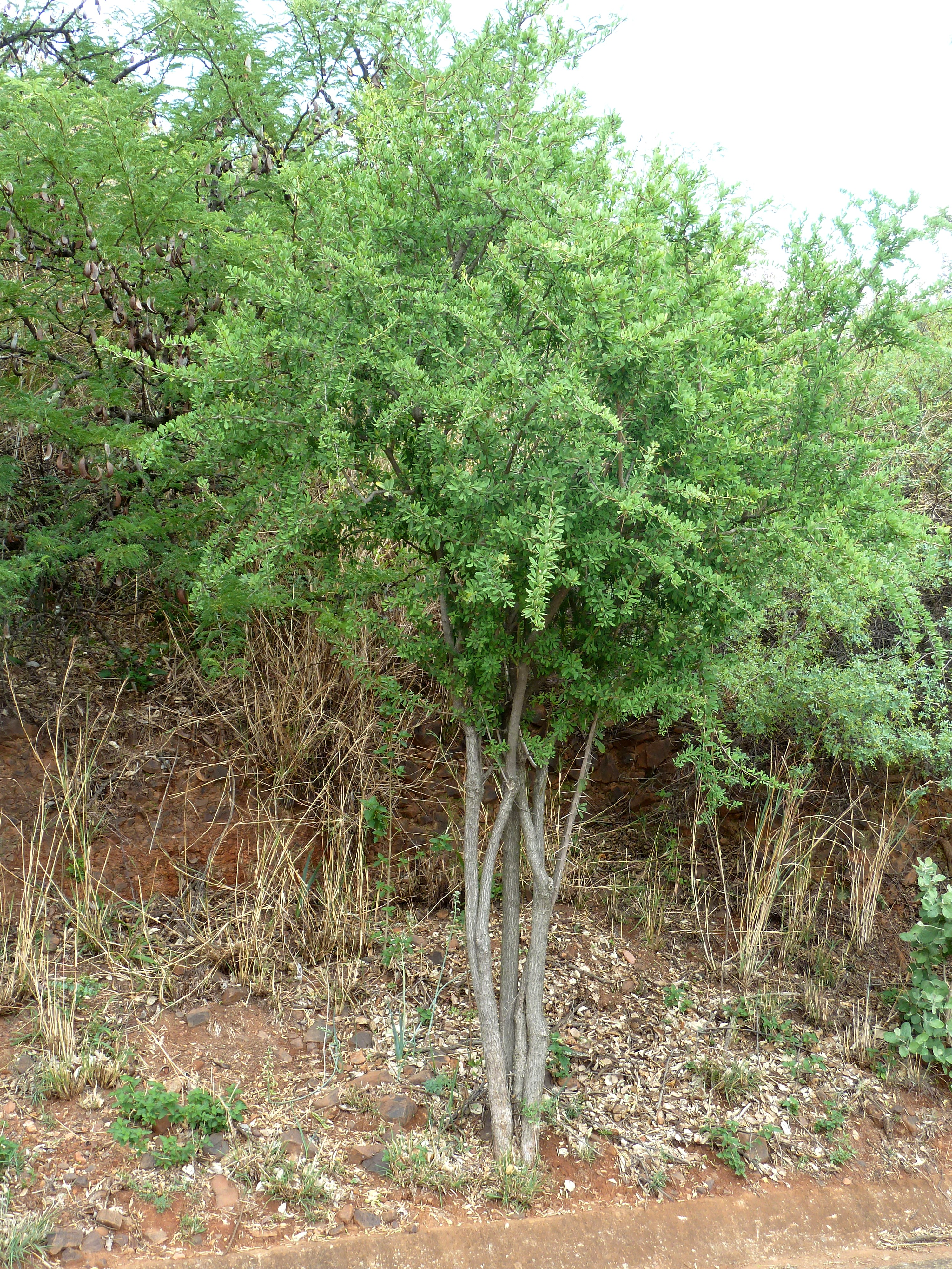 Habit of a Common spike-thorn at Schanskop, Pretoria